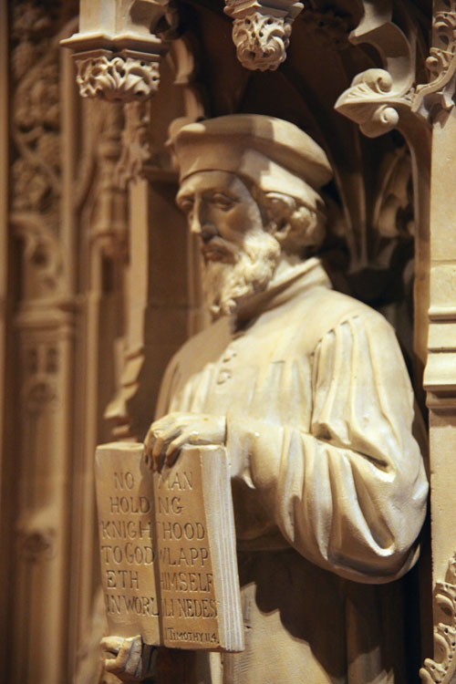 Closeup of the Langton figure on the Canterbury Pulpit at Washington National Cathedral in Washington, D.C. The stone for this pulpit originally was part of the Bell Harry Tower of Canterbury Cathedral, and is made of French limestone. The intricately carved pulpit was presented to the cathedral in 1907 by the Most Rev. Randall Davidson, Archbishop of Canterbury, in memory of his illustrious predecessor, Stephen Langton. The resident architect of the Canterbury Cathedral, William D. Caroe, designed the pulpit. It depicts people and scenes relating to the translation of the Bible into English. In the central bas-relief, the Archbishop of Canterbury, Stephen Langton, is memorialized for his role in urging the English Barons to make King John sign the Magna Carta. The Reverend Martin Luther King, Jr. delivered the final Sunday sermon of his life from this pulpit, just a few days before his assassination.